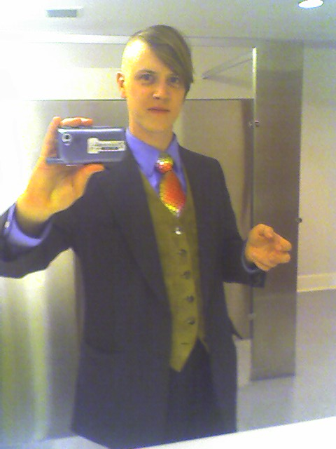 This is the haircut that Merci gave me.